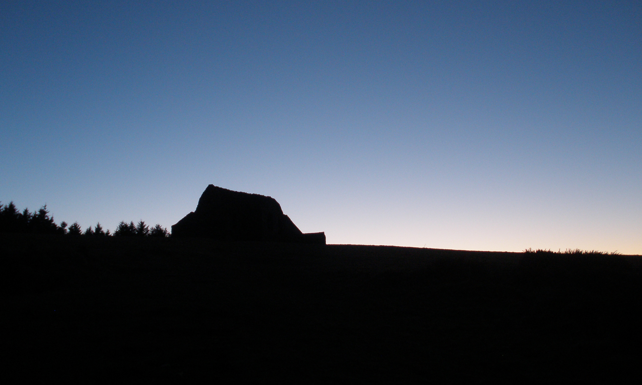 The summit of Montpelier Hill in Dublin, topped by the Hellfire Club ruin, half an hour after sunset.